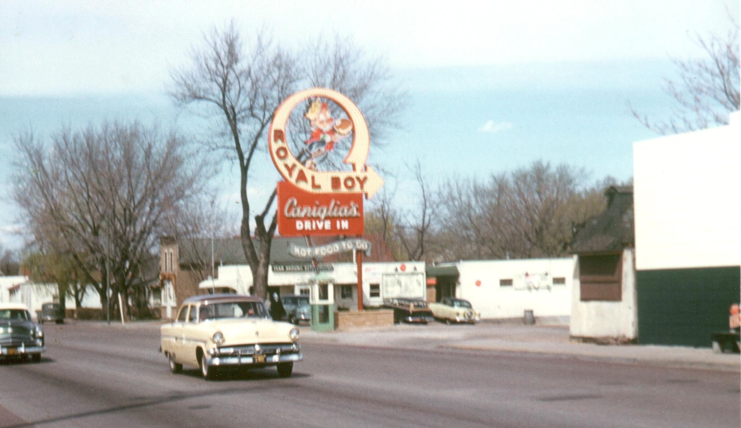 Caniglia's Royal Boy, predecessor to Mister C's